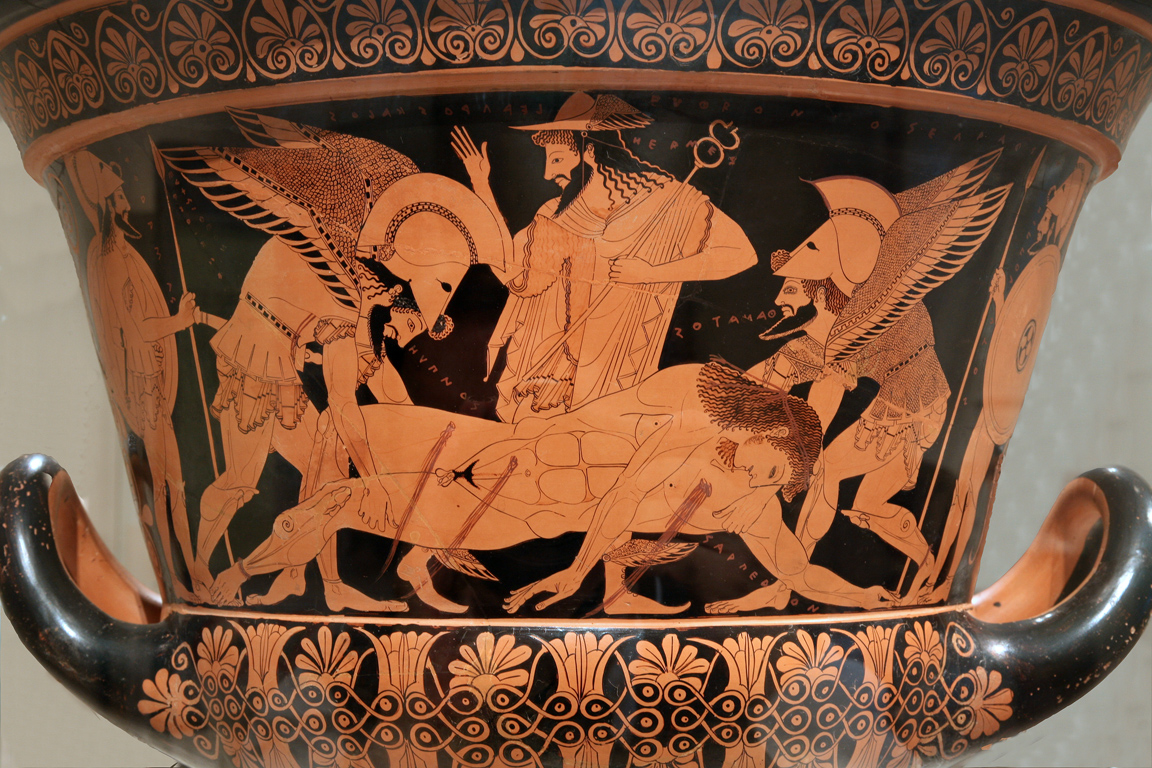 Sarpedon’s body carried by Hypnos and Thanatos (Sleep and Death), while Hermes watches. Side A of the so-called “Euphronios krater”, Attic red-figured calyx-krater signed by Euxitheos (potter) and Euphronios (painter), ca. 515 BC. H. 45.7 cm (18 in.); D. 55.1 cm (21 11/16 in.). Formerly in the Metropolitan Museum of Art, New York (L.2006.10); Returned to Italy and exhibited in Rome as of January, 2008.